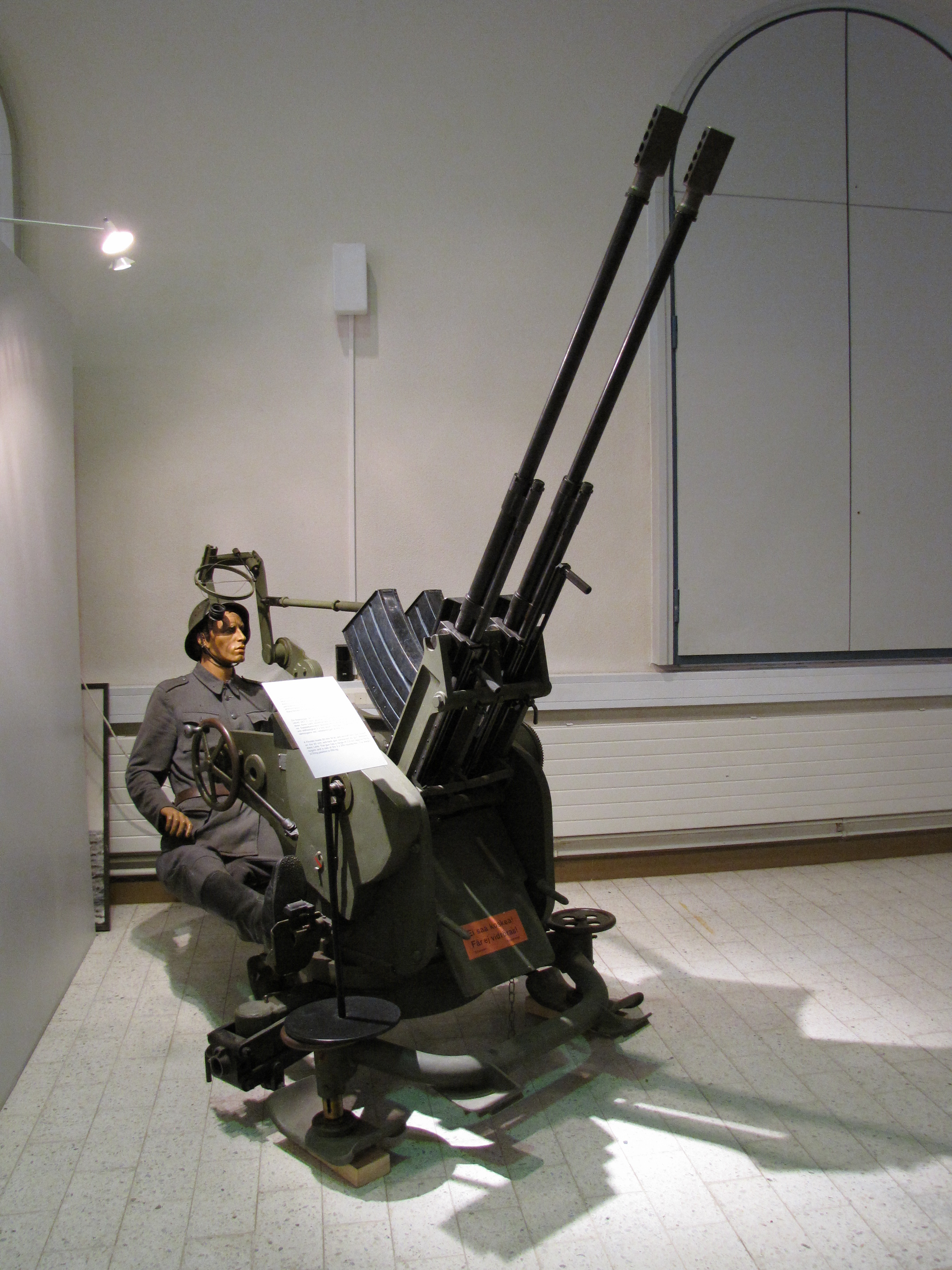 Finnish 20 mm twin anti-aircraft cannon 20 ITK 40 VKT in Maneesi Military Museum.